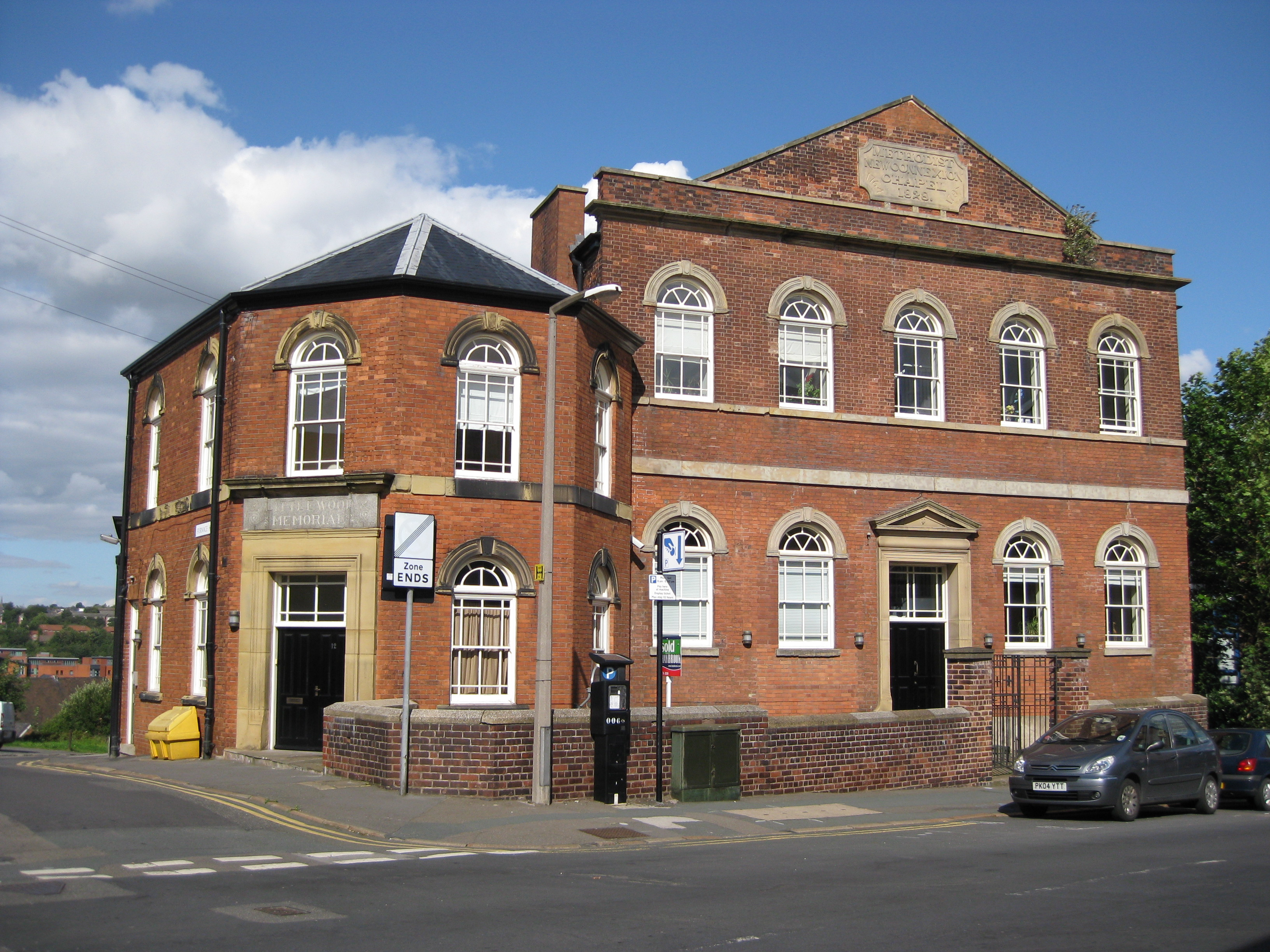 Methodist New Connexion Chapel. Corner of Furnace Hill (left) and Scotland Street (right), Sheffield. Dated 1828